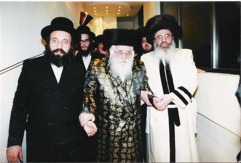 Rebbe of zutchka - Rosenbaum